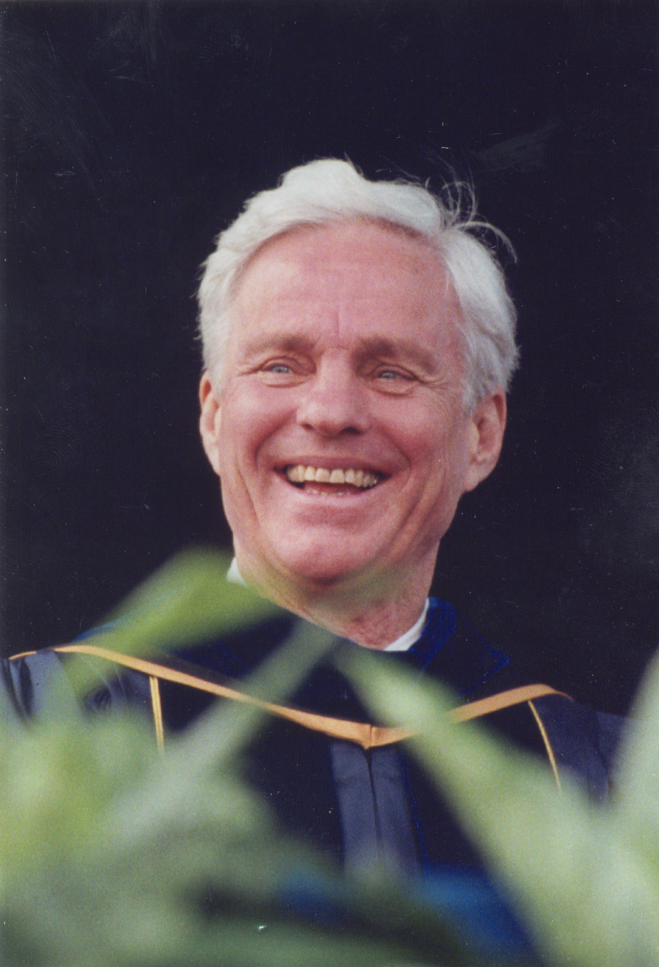 Picture of Richard C. Atkinson for biographical article